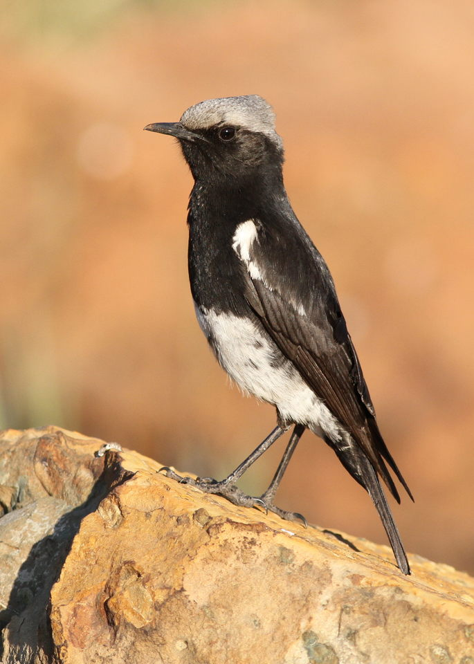 Mountain wheatear or mountain chat - male, Oenanthe monticola, at Suikerbosrand Nature Reserve, Gauteng, South Africa